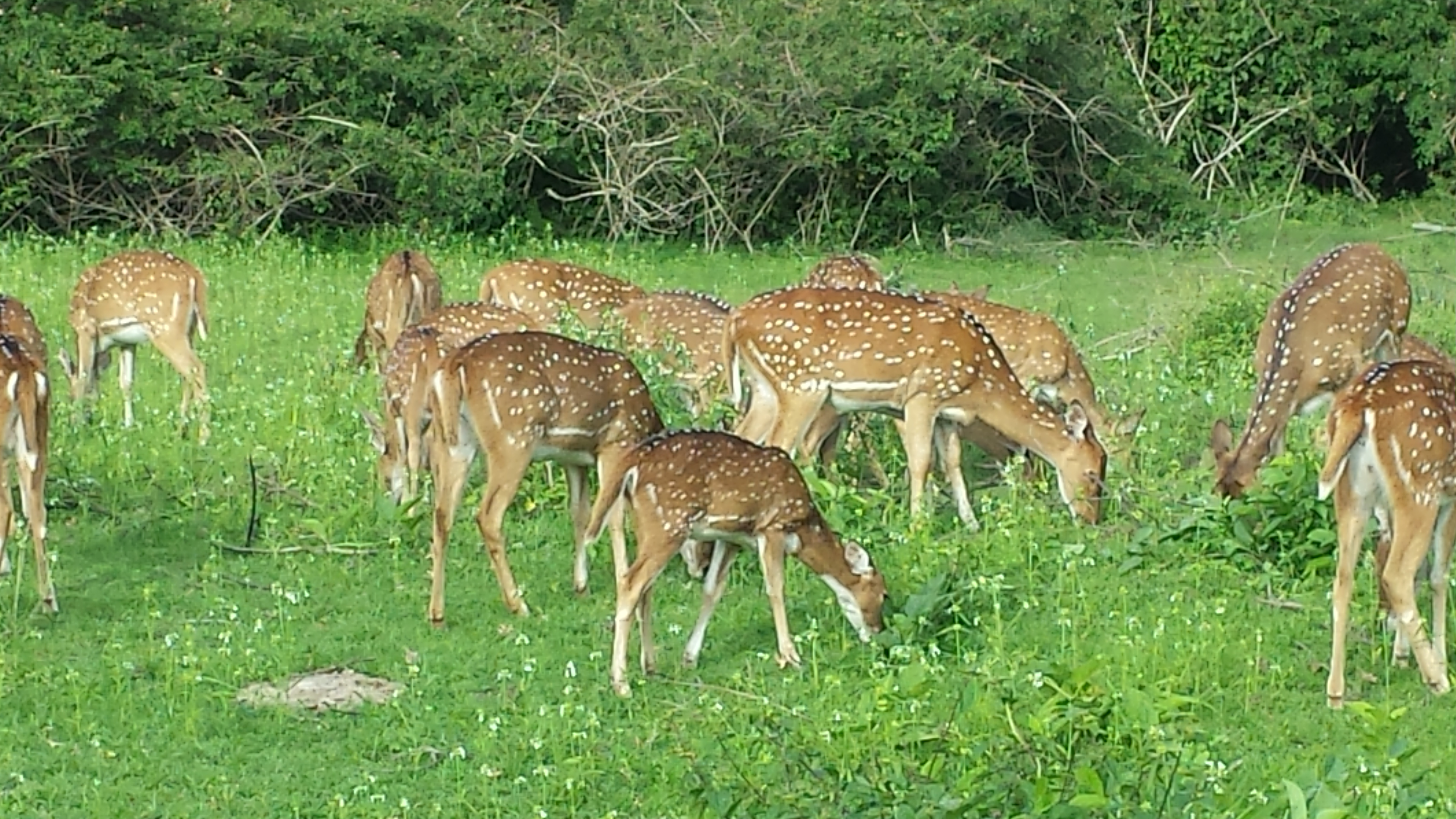 Chital at Bandipur National Park